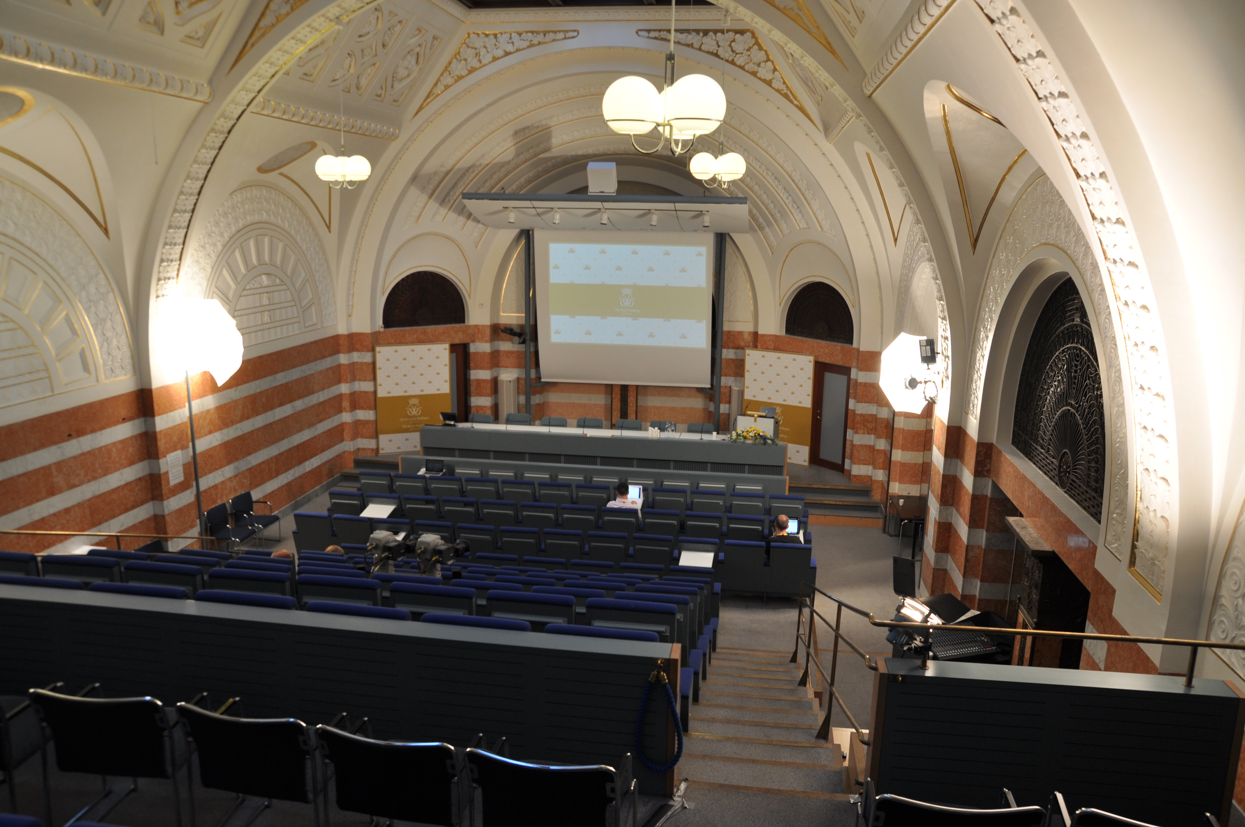 Rosenbad Conference Centre, used as media centre for the Royal Wedding in Stockholm 2010